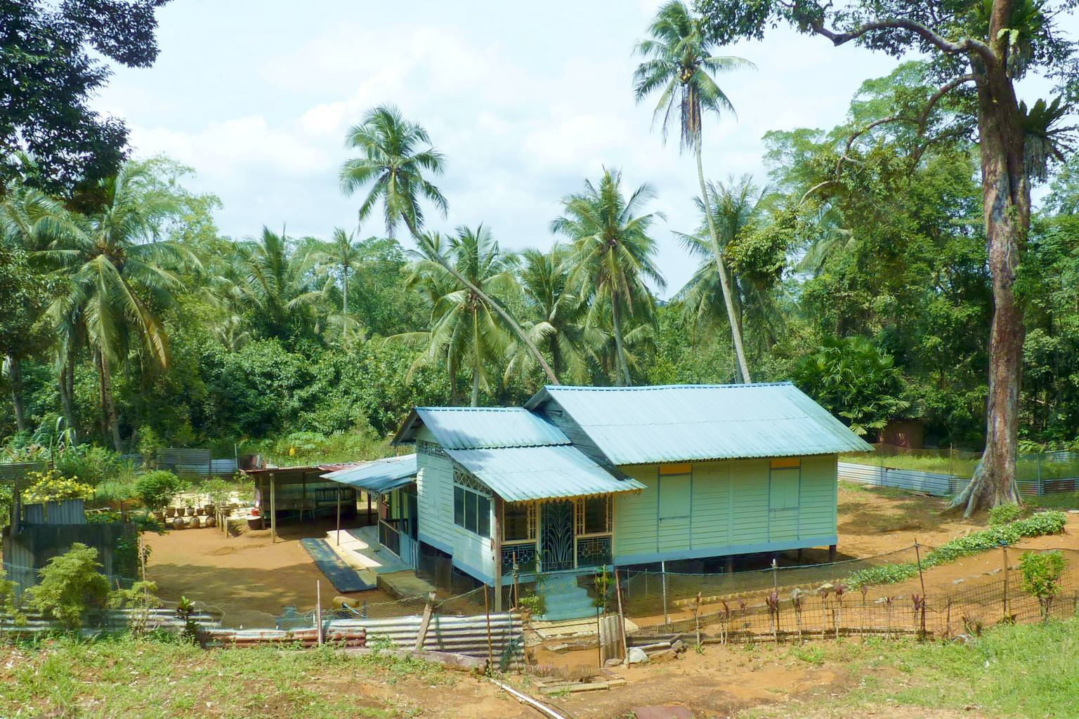 A traditional village house on Pulau Ubin, Singapore.